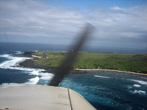 On approach to Kalaupapa Airport in a UND Piper Warrior training aircraft